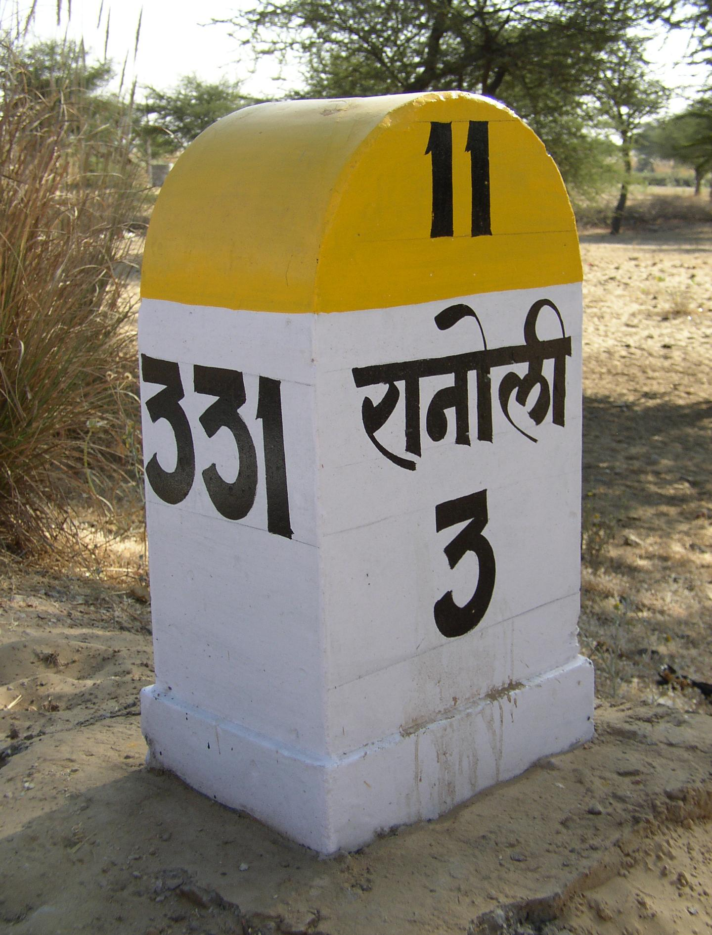 Kilometre sign near Sikar in Rajasthan, India. Sign represents National highway 11. This section has been renumbered as part of NH 52.